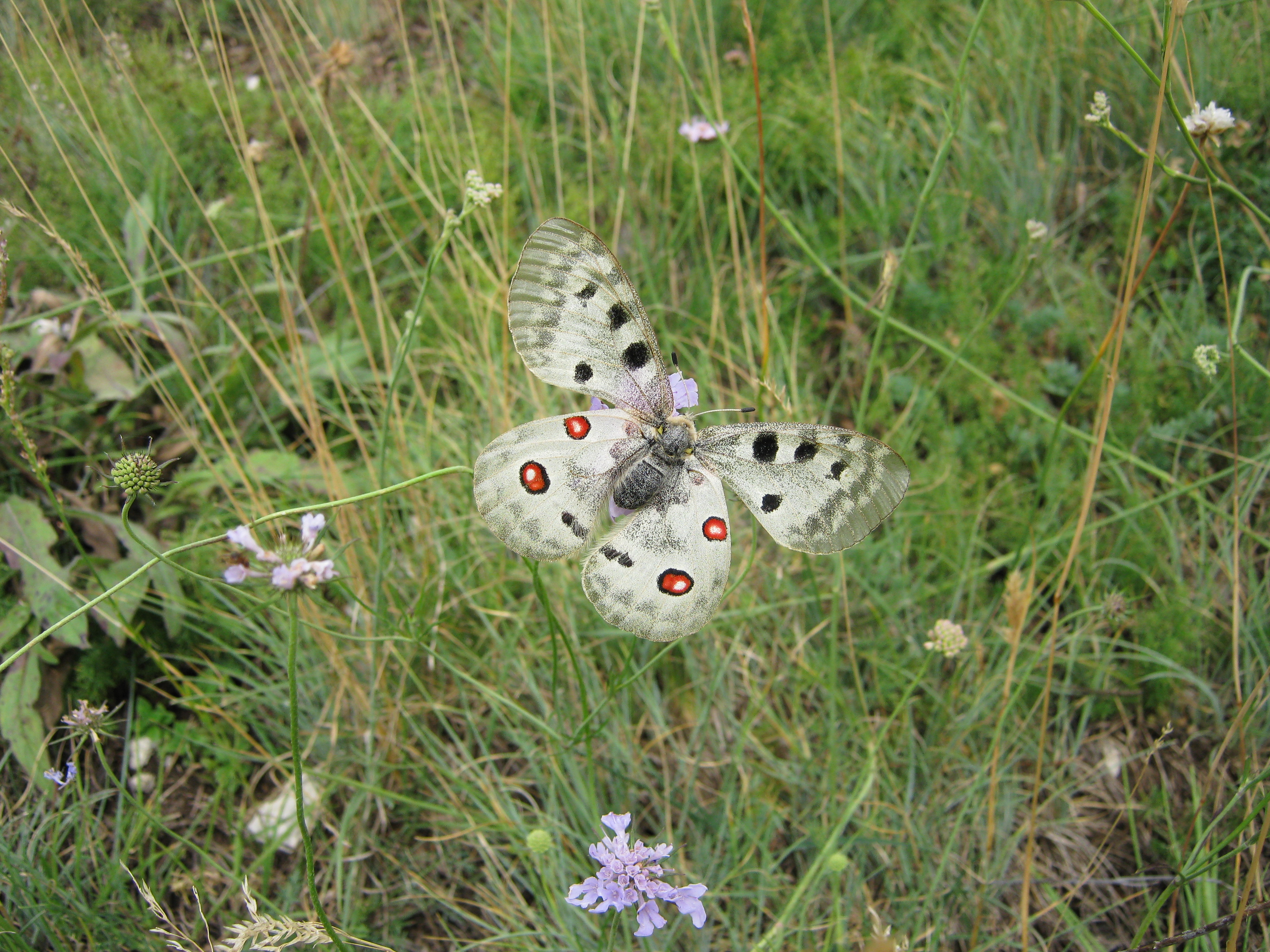 Apollo Butterfly of Gran Sasso Mountain, Italy